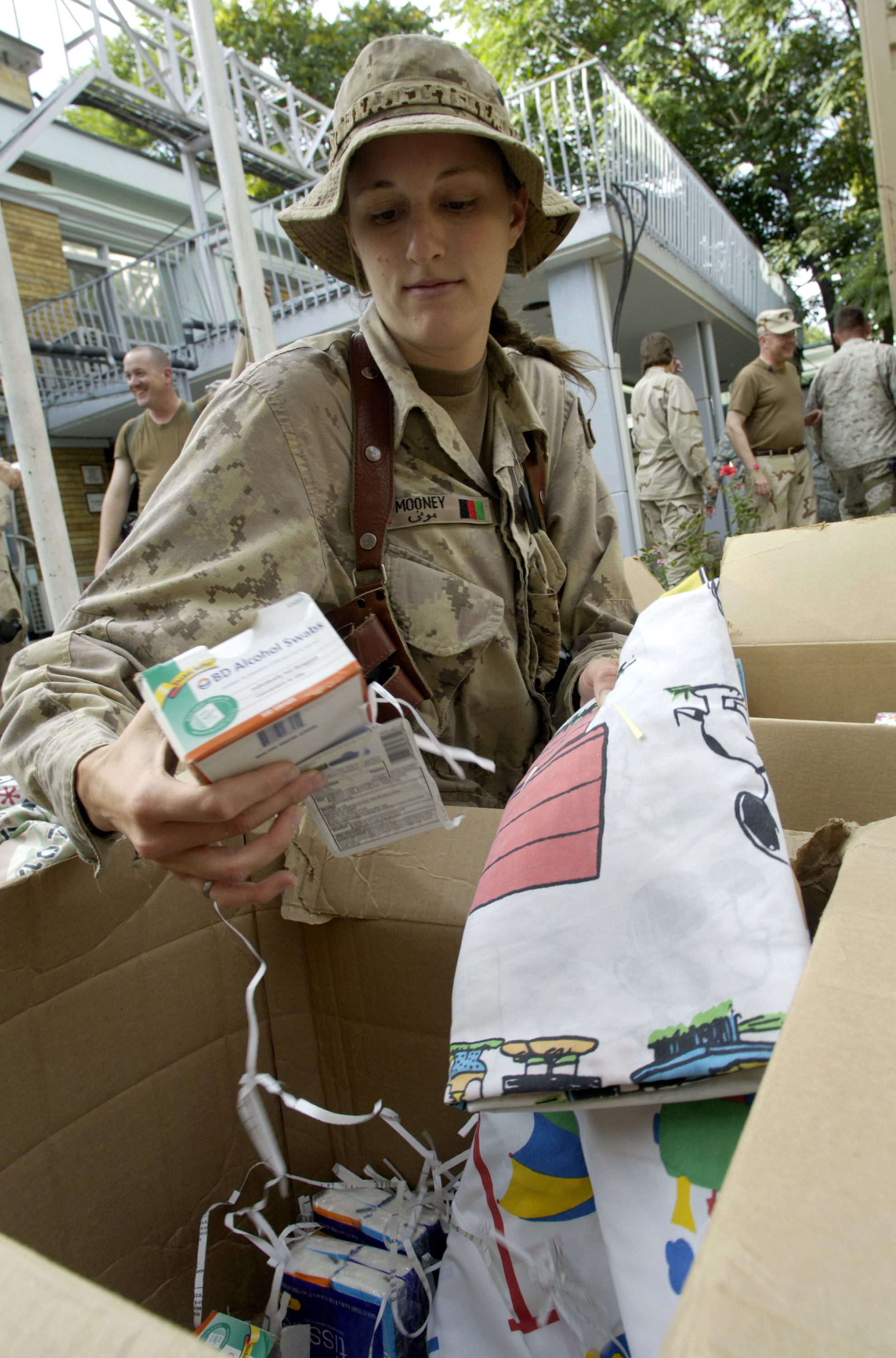 Canadian Navy Lt. Haley Mooney joins other volunteers from the Combined Security Transition Command-Afghanistan July 23 to sort donations sent from the United States to Camp Eggers in Kabul, Afghanistan. The volunteers, made up of joint and international military members, civil servants and contractors from throughout the CSTC-A, gather every two weeks to sort and package the clothing, toys, school supplies and toiletries which will be distributed in the Kabul area.